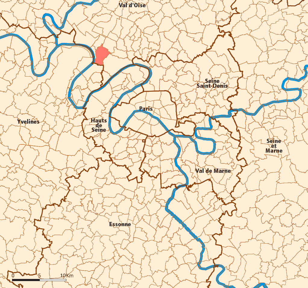 Created map myself.